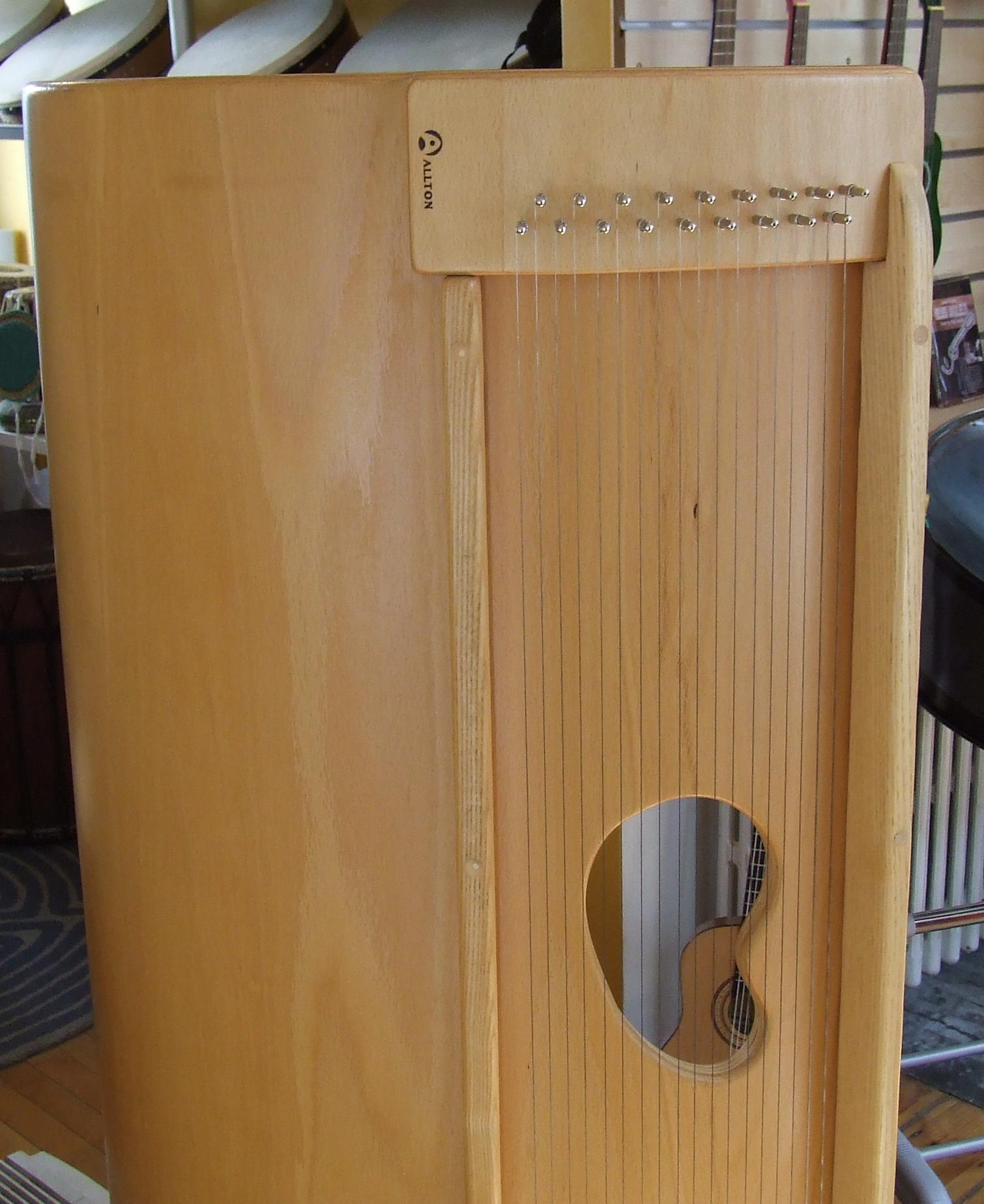 "Klangwiege", a two-note polychord by the German company Allton.